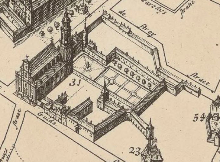 Detail of 1695 map by J. Laboureur & Josse van der Baren, Bruxella, nobilissima Brabantiæ civitas